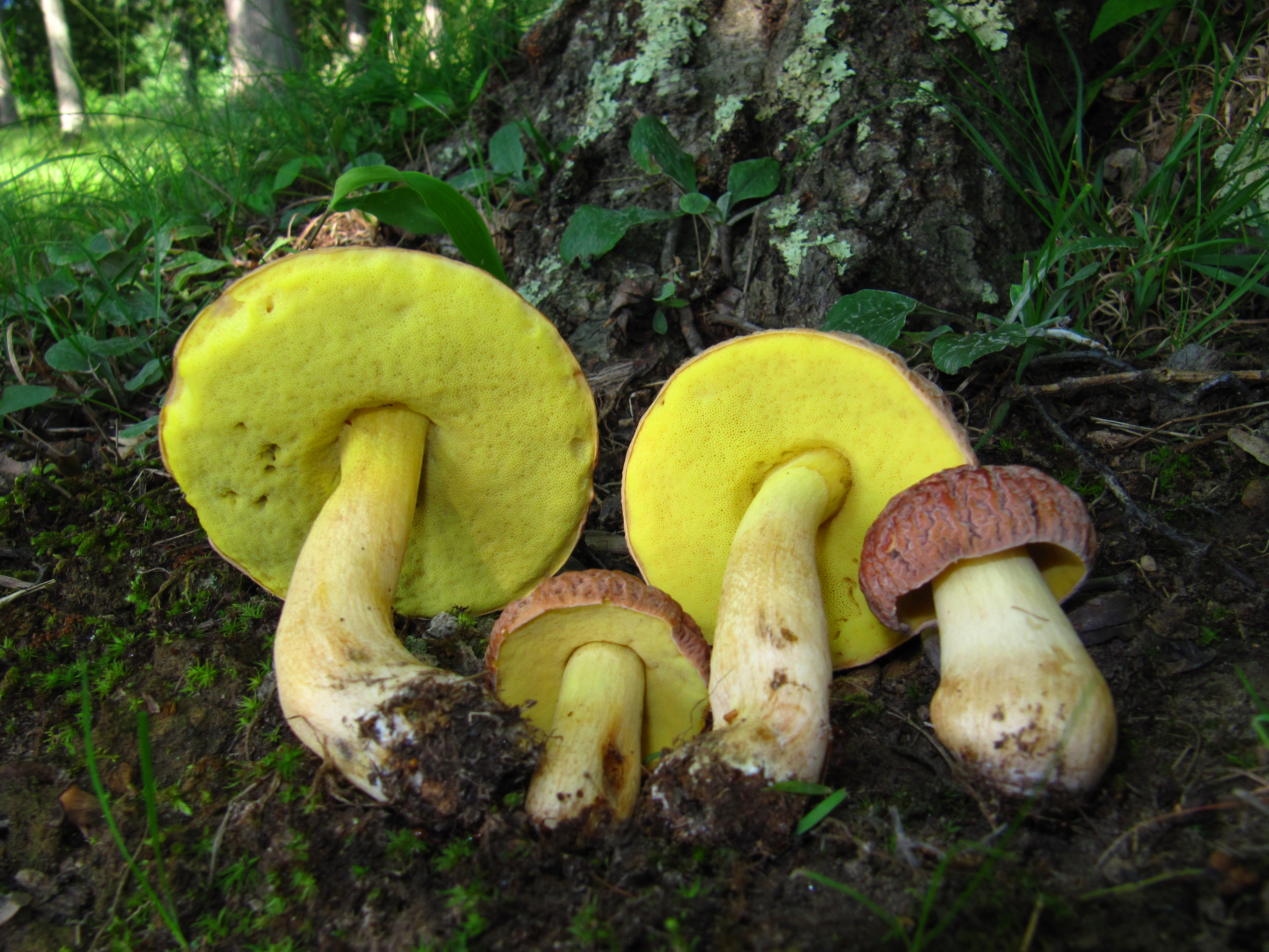 Boletus hortonii A.H. Sm. & Thiers Location: Rest Area, north bound, State Highway 33, between Pomeroy and Athens, Ohio, USA For more information about this, see the observation page at Mushroom Observer.